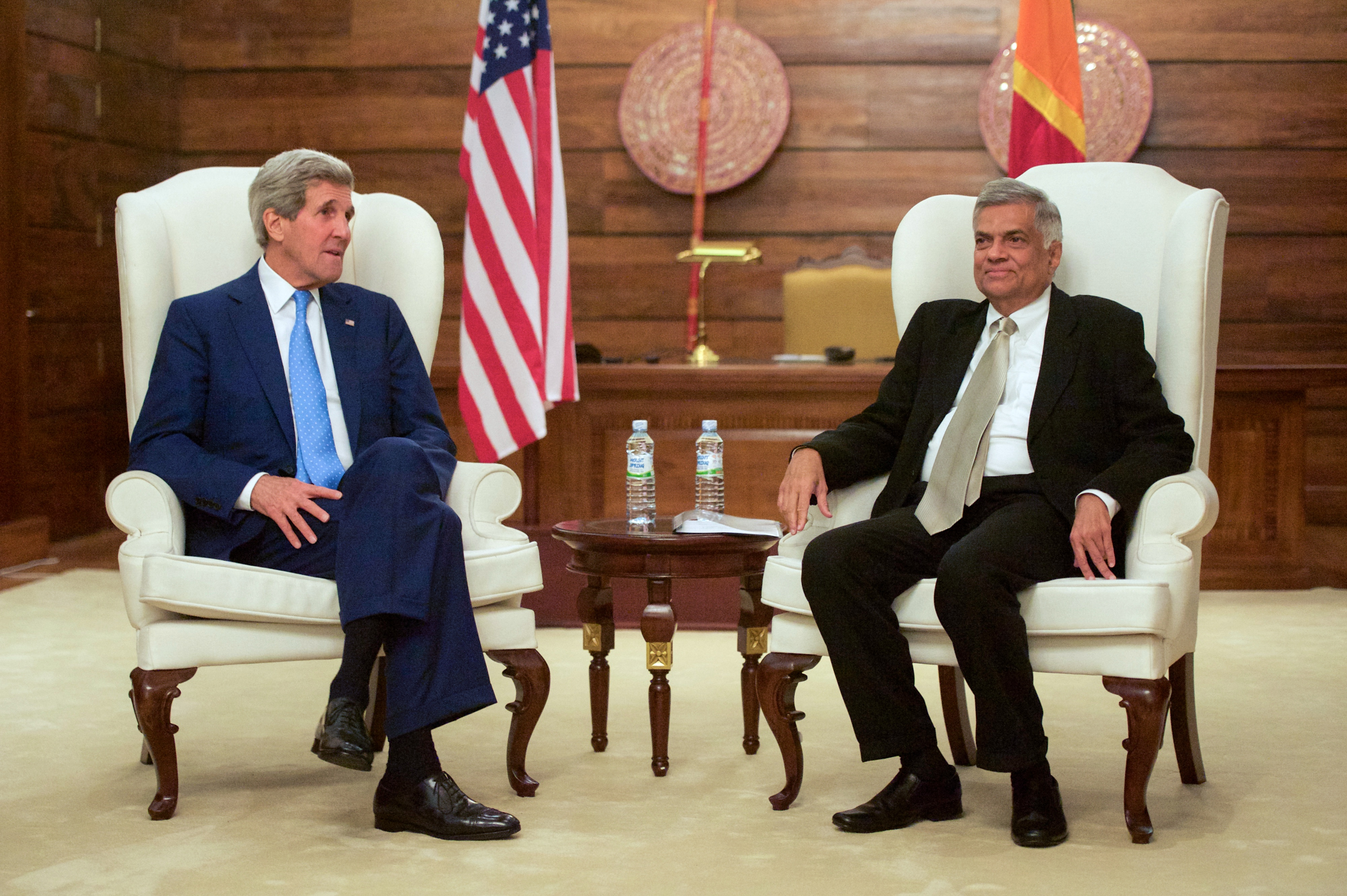 U.S. Secretary of State John Kerry sits with Sri Lankan Prime Minister Ranil Wickremesinghe at the Temple Trees complex in Colombo, Sri Lanka, on May 2, 2015, after meetings with President Maithripala Sirisena and Foreign Minister Mangala Samaraweera. [State Department Photo/Public Domain]